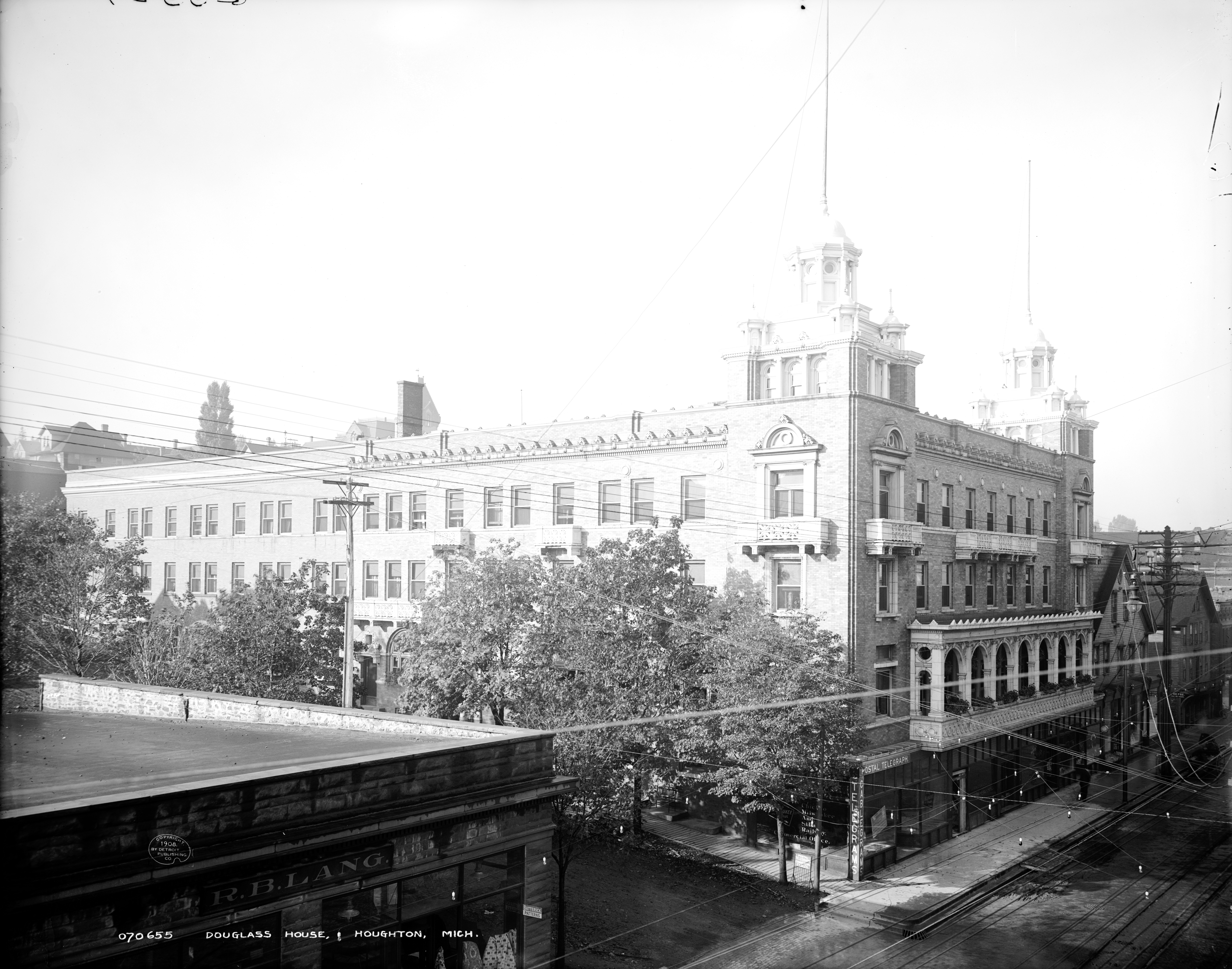 The Douglass House in Houghton, Michigan around 1908.